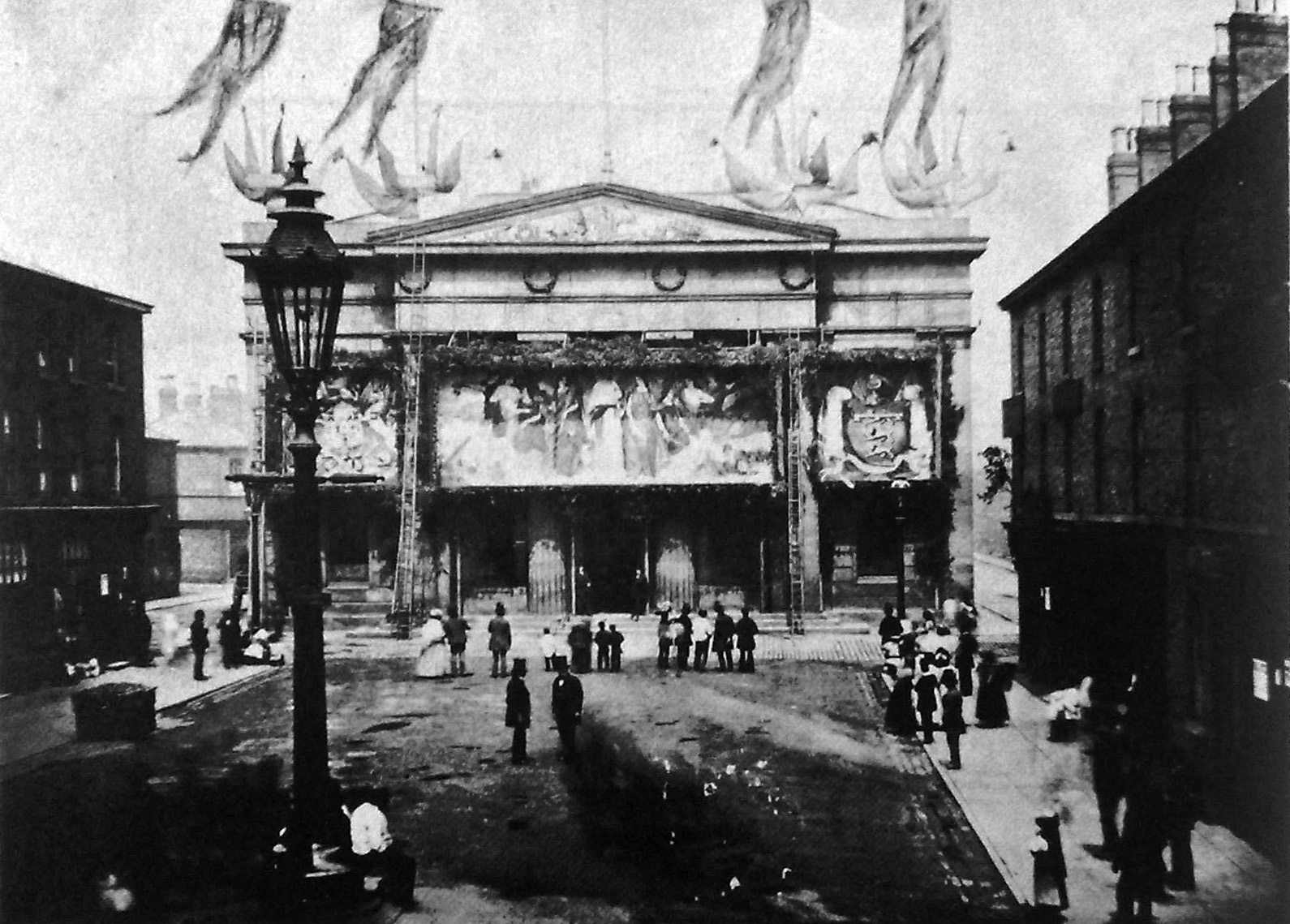 The Crimean War Pear Celebrations. A painting hangs from the front portico of the Town Hall, lit by gas burners. In the centre, PEACE holds an olive branch and globe, to the left a lion and lamb represent tranquillity, figures of AGRICULTURE stand with vegetables, MUSIC, LYRES and POETRY are also used. A seaport shows the prosperity from peace. On the right of PEACE, a snapped sword, the crown of victory, JUSTICE holds a balance, UNITY a bundle of rods. A veil hides the figure of War from Peace. The arms of Salford and the Duchy of Lancaster are represented along with the Royal coat of arms. Above the building fly the flags of France, Turkey, Sardinia and Russia, with Britain in the middle.